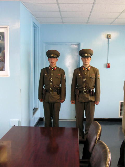 Panmunjeom, JSA, inside the middle barack. North Korean soldiers in front of the door to the south side. Own photo taken in August 2005